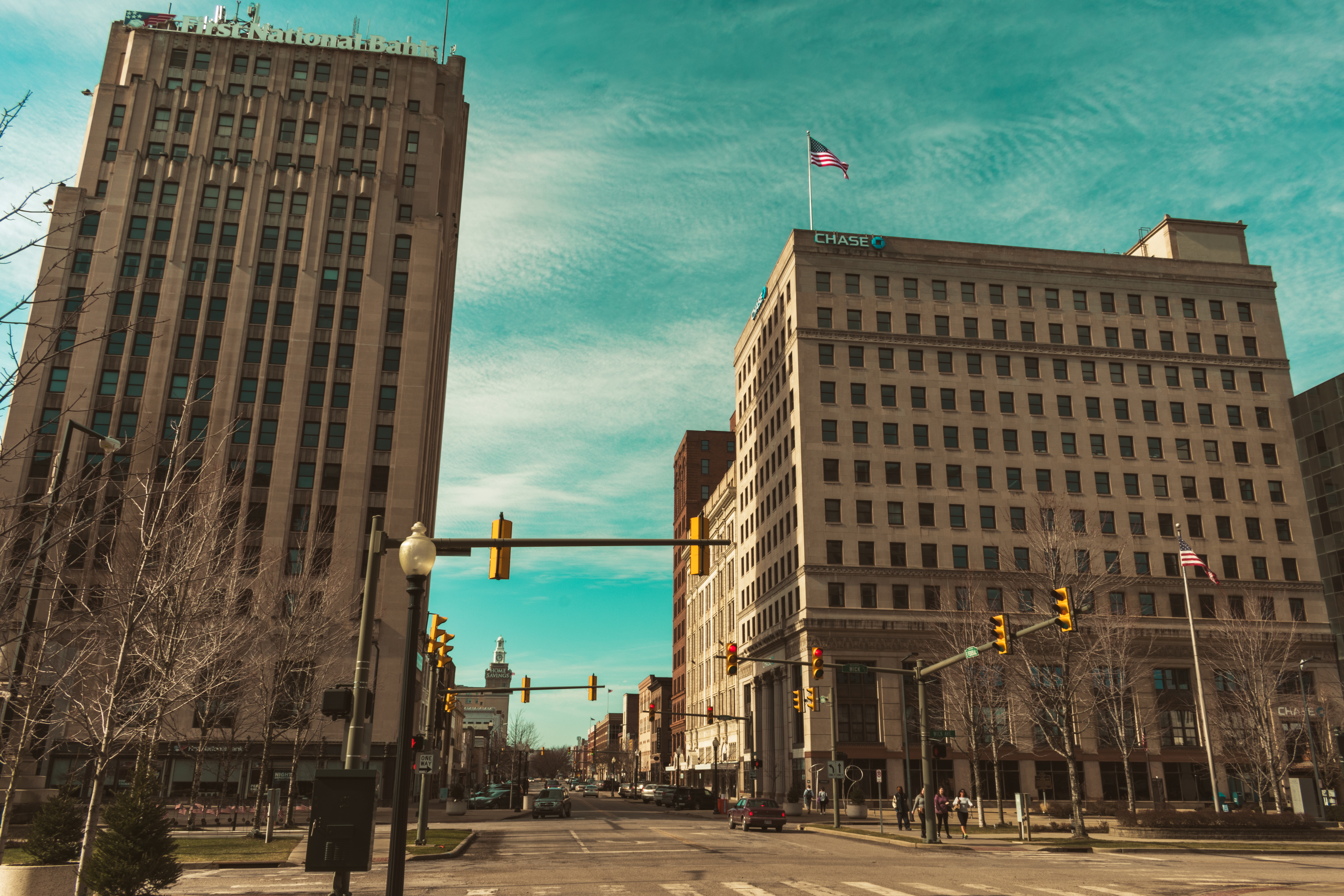 Looking down Federal Street